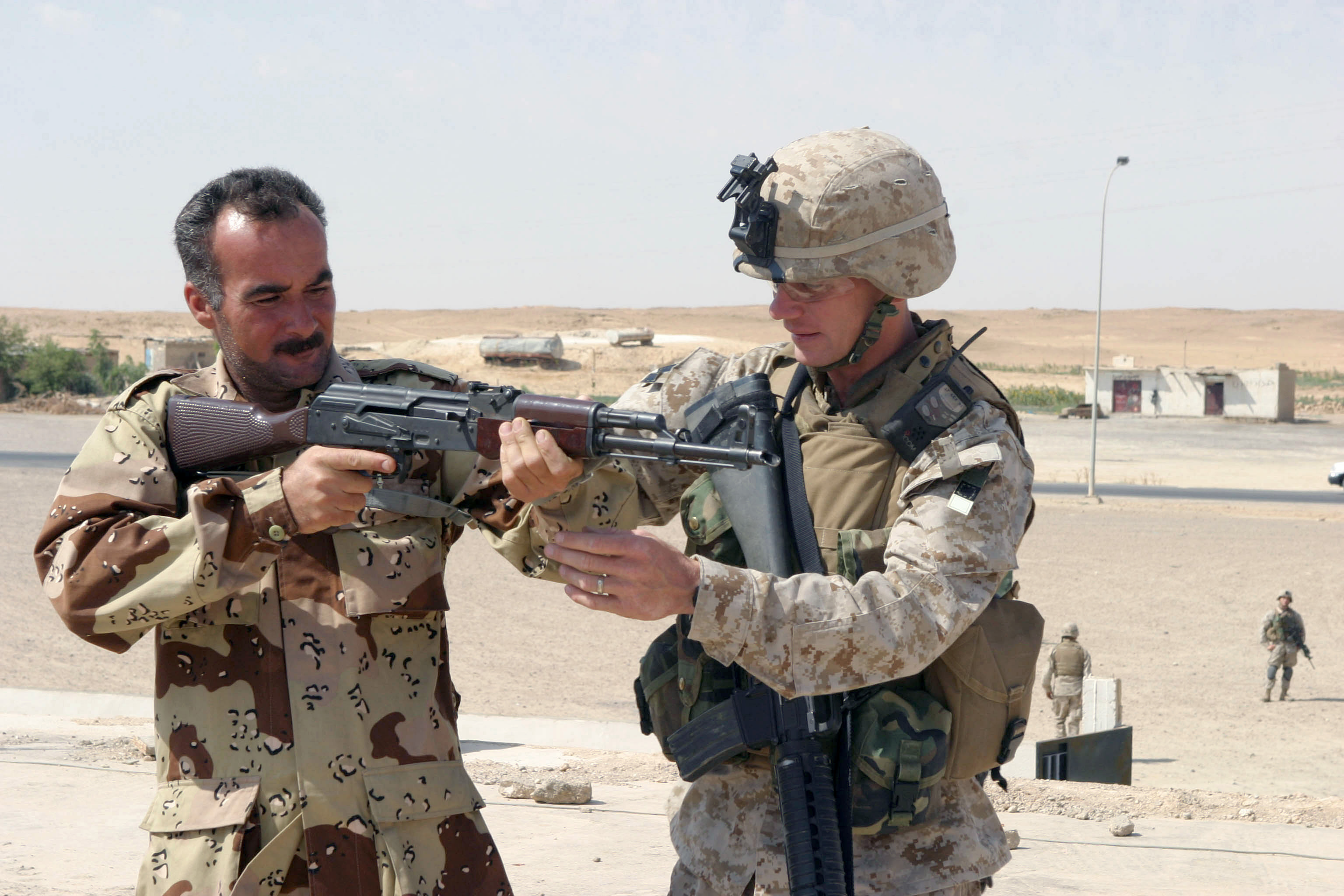 US Marine Corps (USMC) First Lieutenant (1LT) Lee, India (I) Company (Co), 3rd Battalion (BN), 4th Marine Regiment (7th Marine Regiment), 1st Marine Division (MAR DIV), Marine Corps Air Ground Combat Center (MCAGCC) Marine Air Ground Task Force Training Center (MAGTFTC) 29 Palms, California (CA), adjusts the hasty sling technique used by an Iraqi Civil Defense Corps (ICDC) Soldier, holding an Iraqi Tabuk 7.62 mm assault rifle, on the roof at the Rawah ICDC Command Post outside of Anah, Iraq, during a Security and Stabilization Operation (SASO) in the Al Anbar Province of Iraq during Operation IRAQI FREEDOM. Location: ANAH, AL ANBAR IRAQ (IRQ)